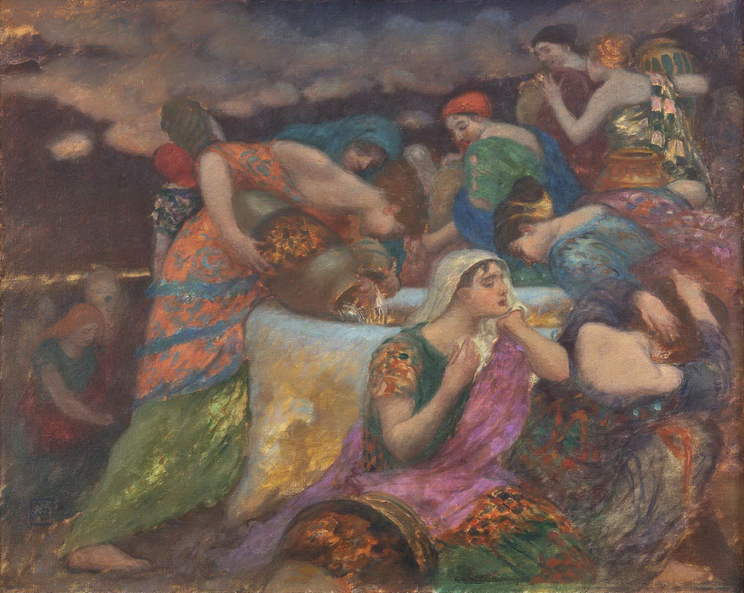 Danaides, c.1918 (O492) oil on canvas signed with monogram lower left 65.5 x 81 cm